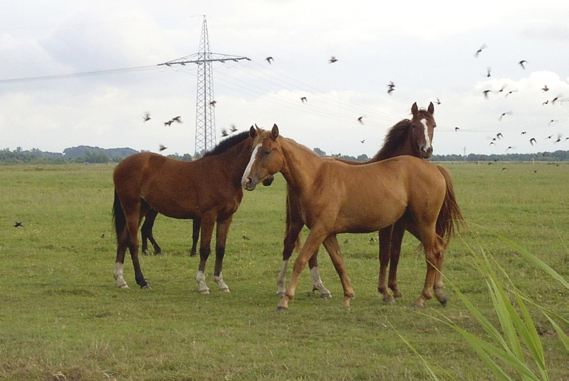 Horses